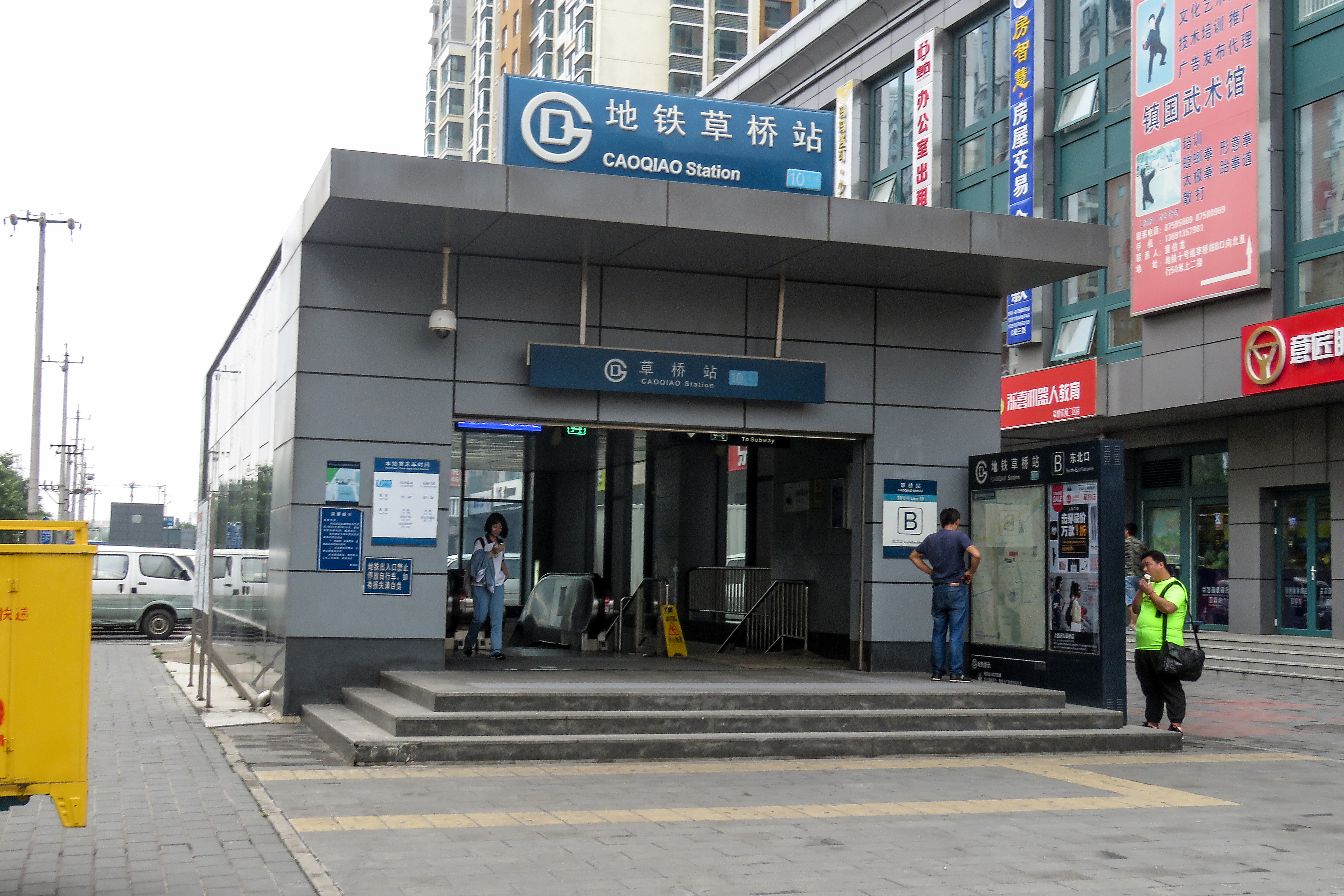 Actually at Caoqiaoxinyuan... no exits on the south.